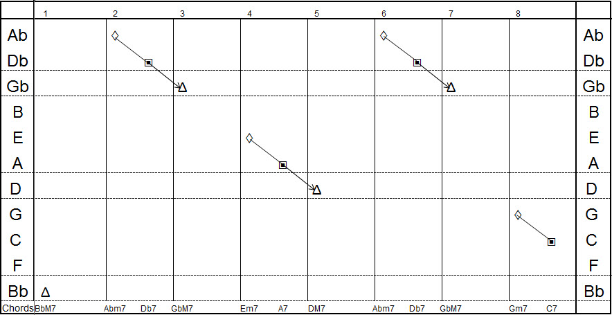 A graphical representation of the chords from "Have you met Miss Jones" by Rogers and Hart, using a SeeChord chart.